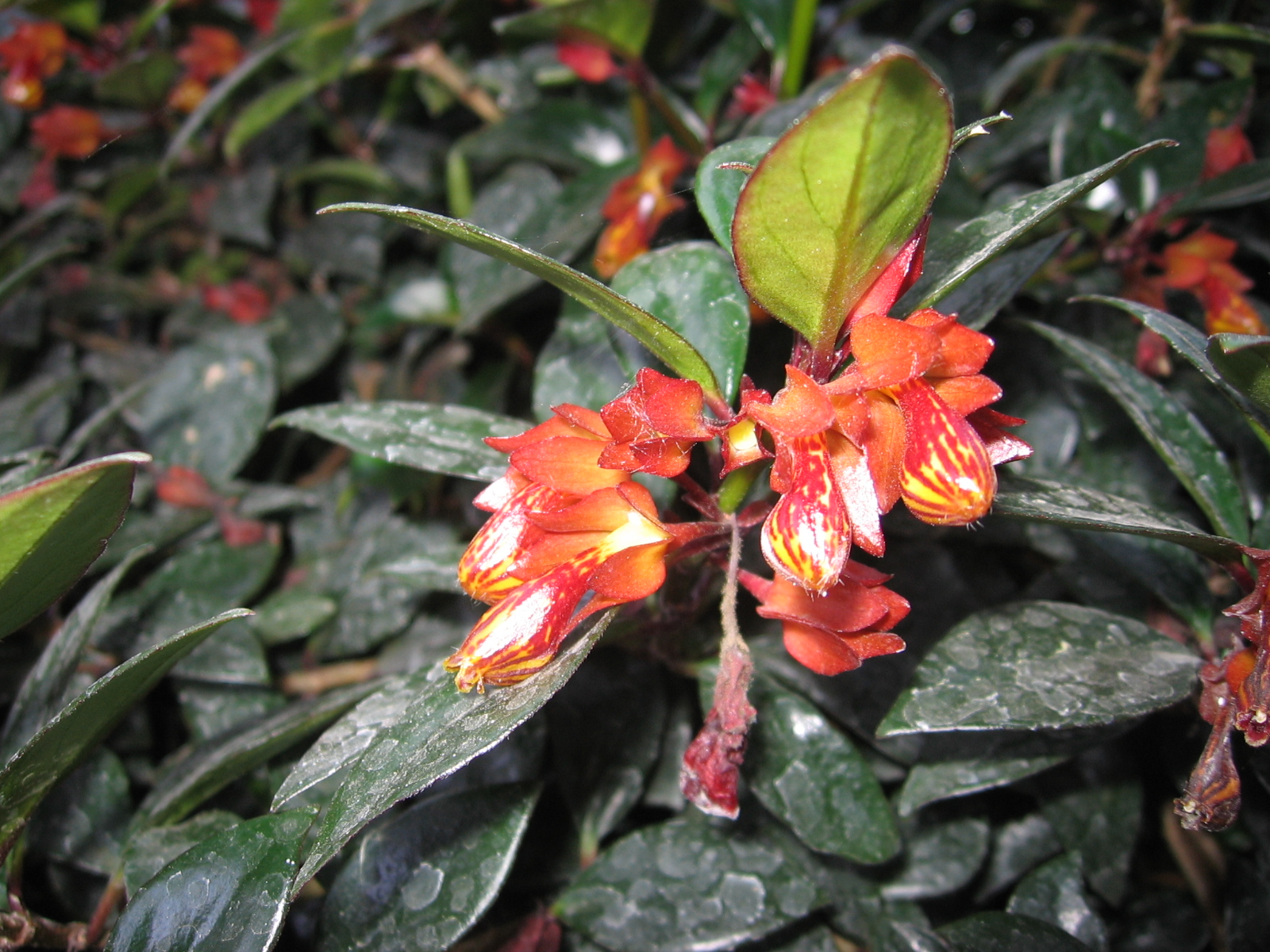 Goldfish plant, Nematanthus "Tropicana," Jardin botanique de Montréal.